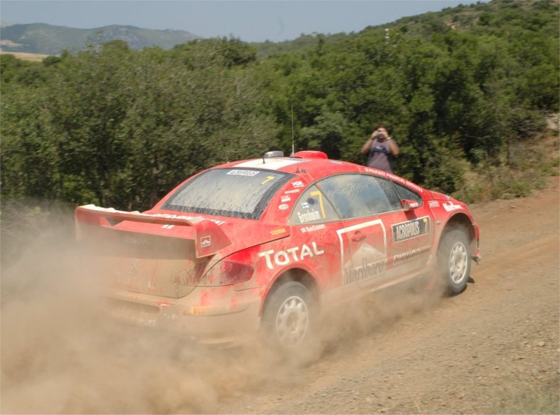 Marcus Grönholm driving a Peugeot 307 WRC at the 2005 Acropolis Rally.